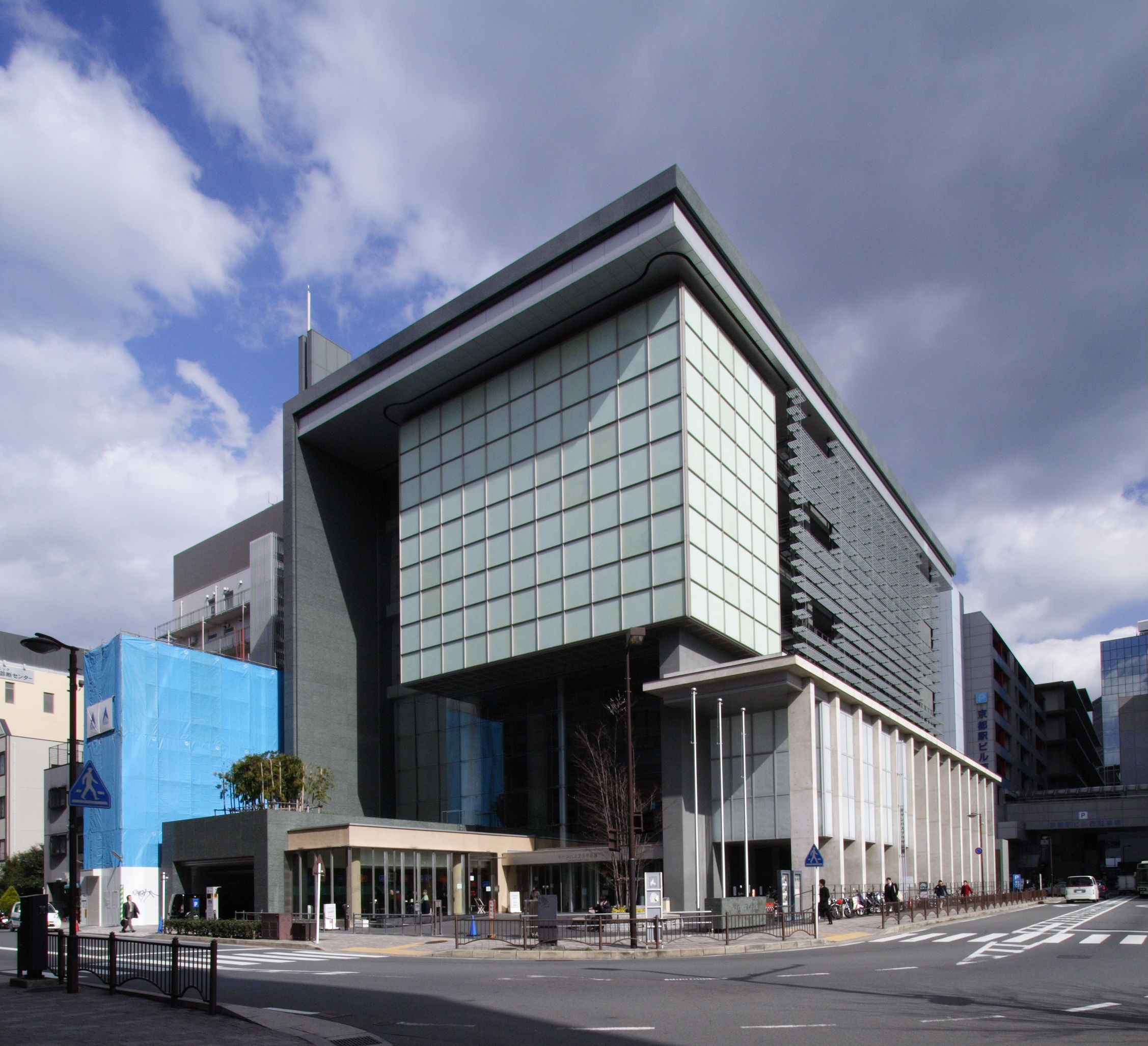 Campus Plaza Kyoto